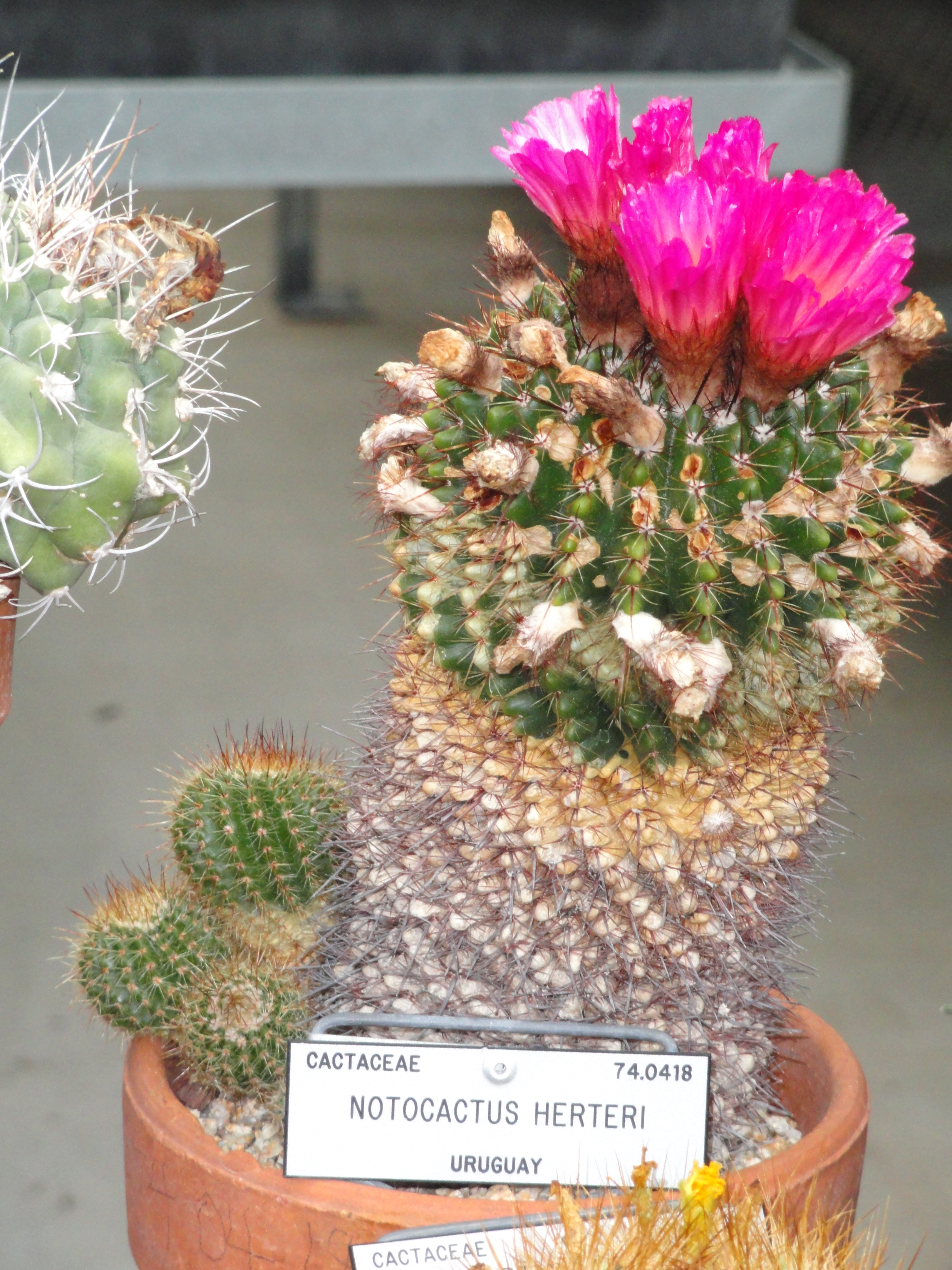 Notocactus herteri specimen in the University of California Botanical Garden, Berkeley, California, USA.